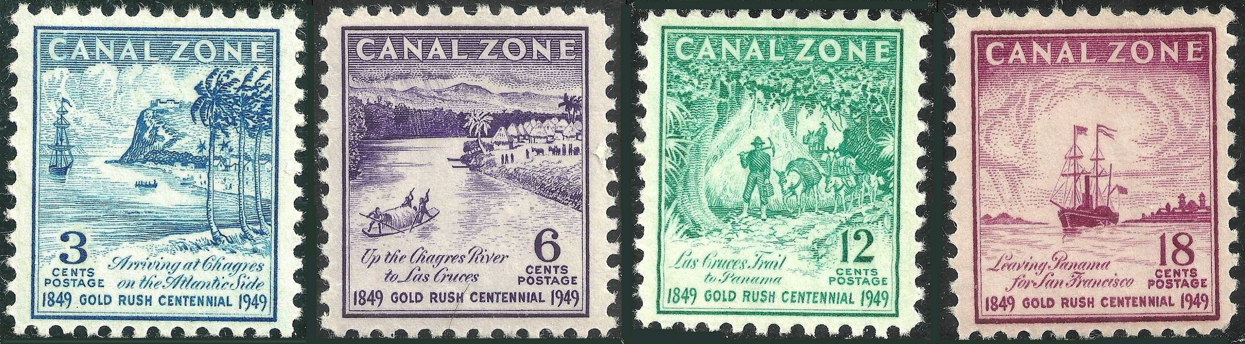 Canal Zone, June 1949, Issues